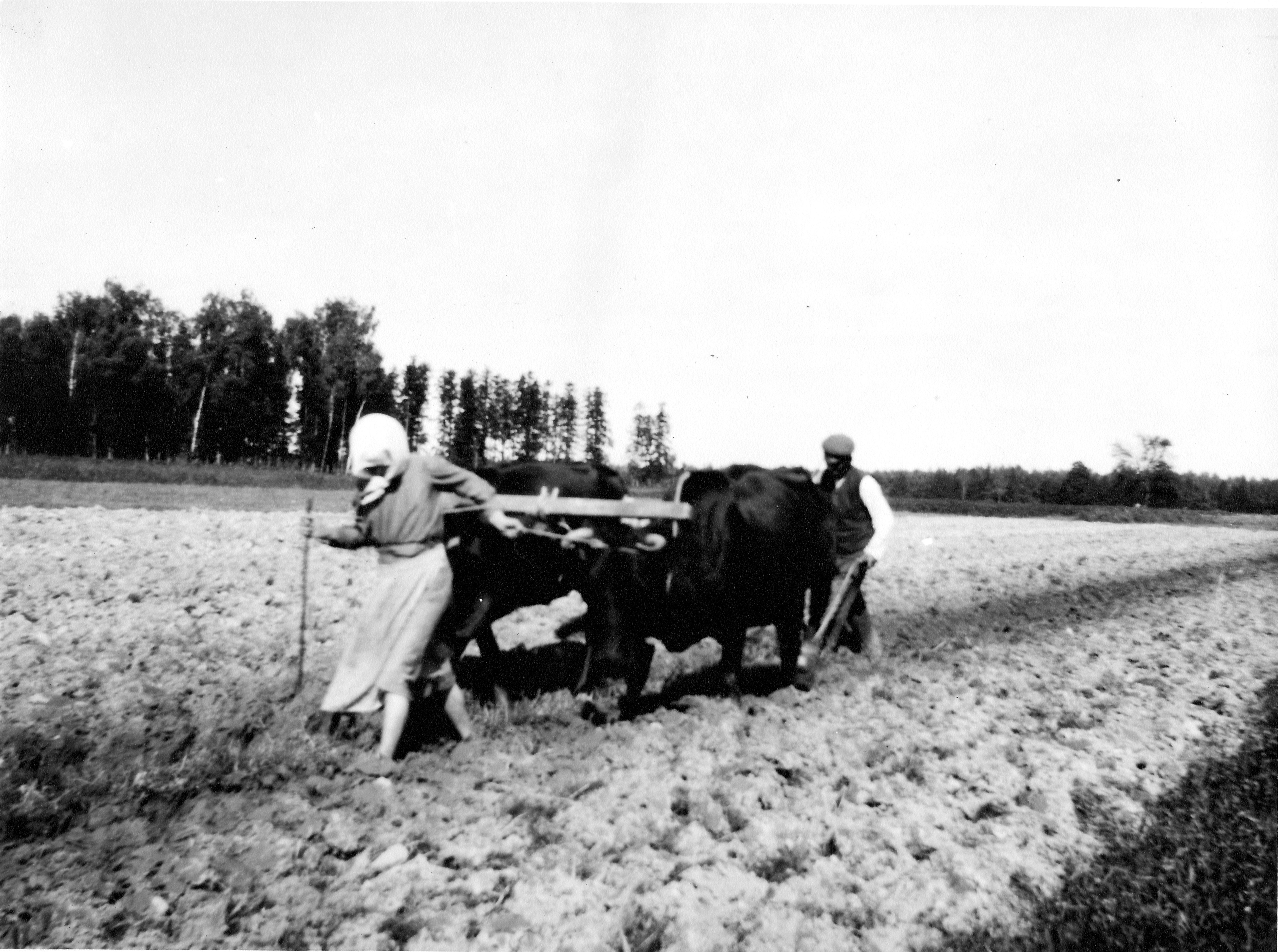 A photo view of farm work i in Poland, ca 1915